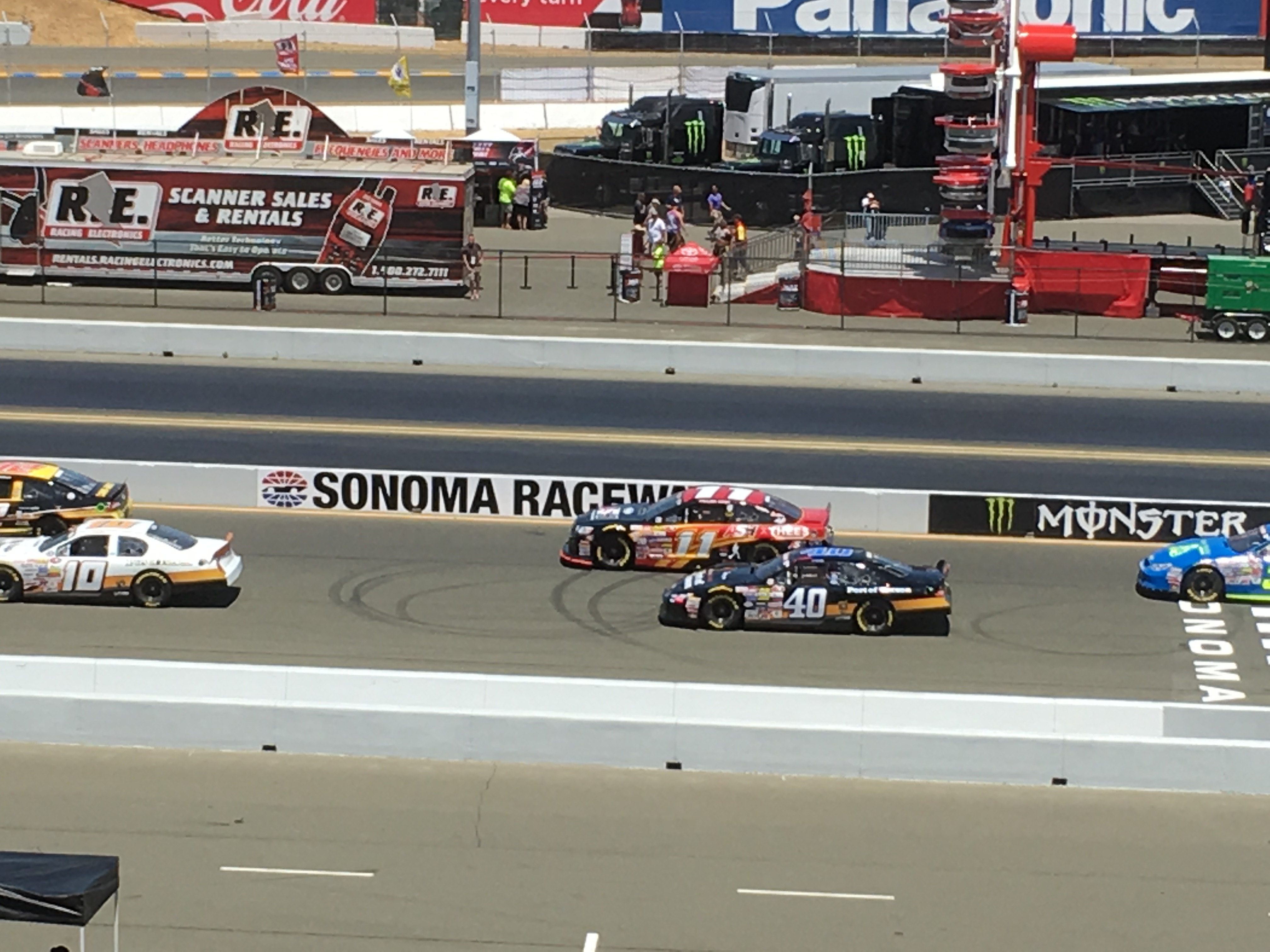 Takuma Koga (No. 11) and Ron Norman (No. 40) at the 2017 Carneros 200.